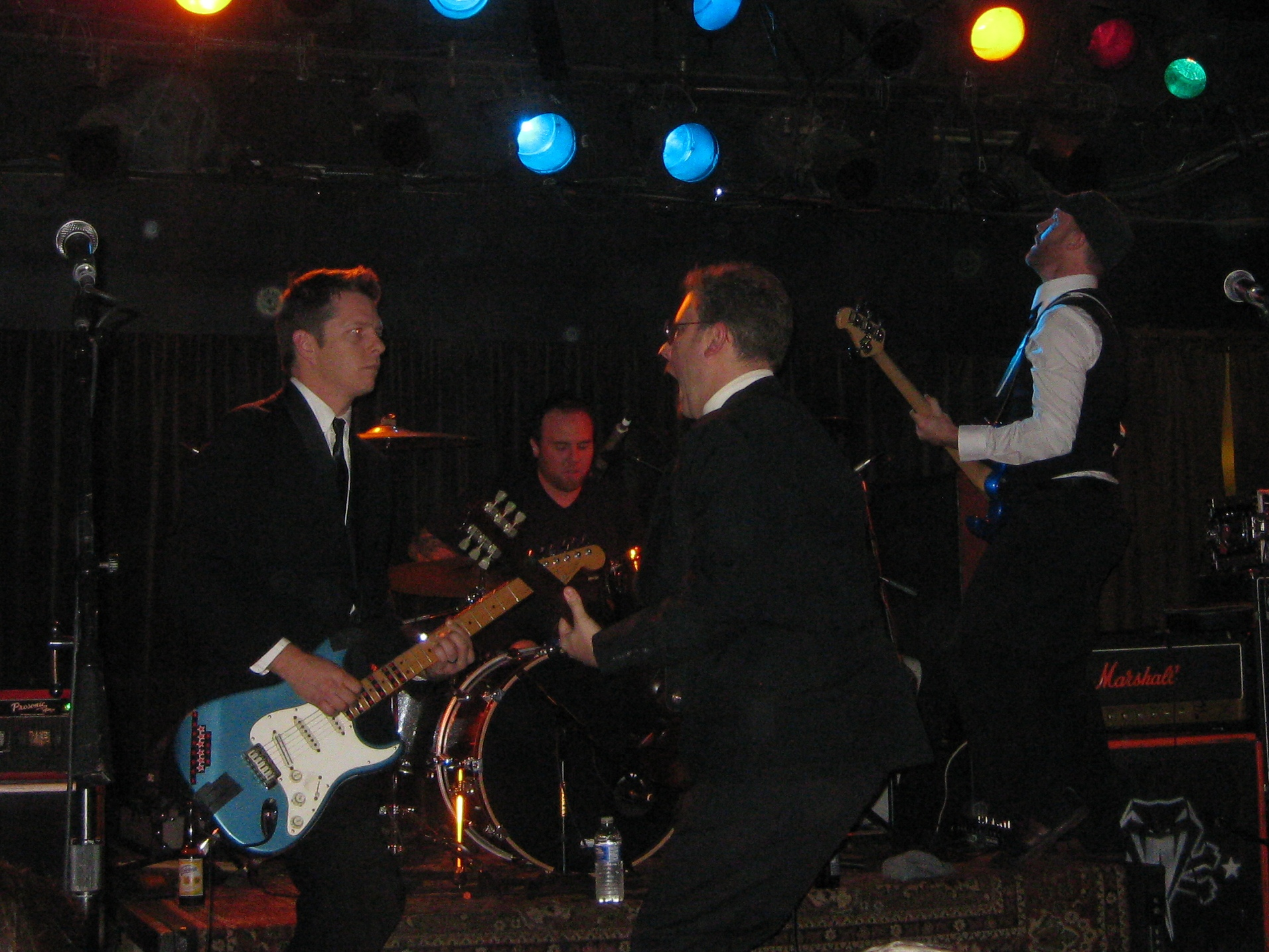 Agent 51 performing January 20, 2012 at the Belly Up tavern in Solona Beach, California. Left to right: guitarist Eric Davis, drummer Mikey Levinson, singer/guitarist Chris Armes, and bassist Greg Schneider.